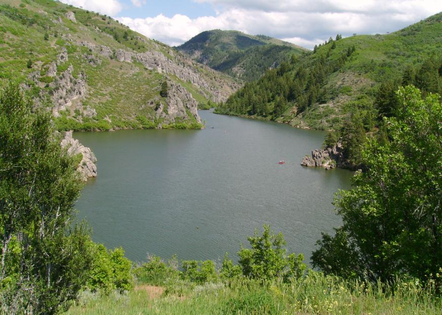 Causey Reservoir, about 11 miles east of Huntsville, Utah, United States